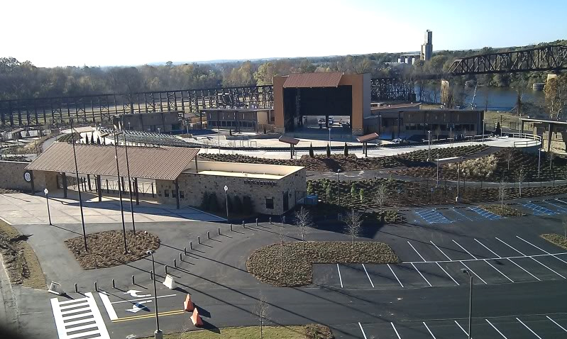 Photo of the Tuscaloosa Amphitheater taken from the Hugh Thomas Bridge in downtown Tuscaloosa, Alabama, United States in December 2010.